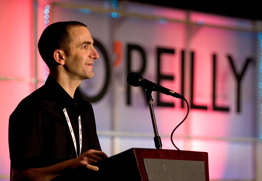 Real Dornfest introducing Larry Lessig for presentation, Re:Mix Me This photograph was taken during the 2005 O'Reilly Emerging Technology Conference in San Diego, California at the Westin Horton Plaza Hotel.